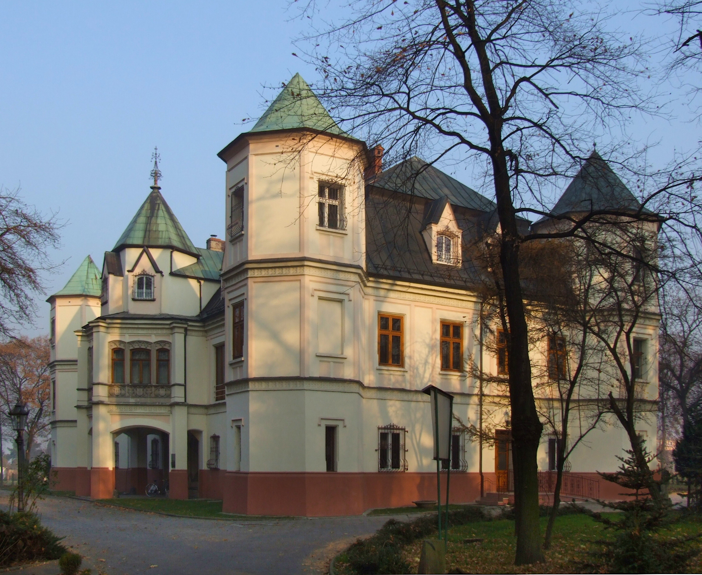 Palace in Krzyżanowice (Kreuzenort)